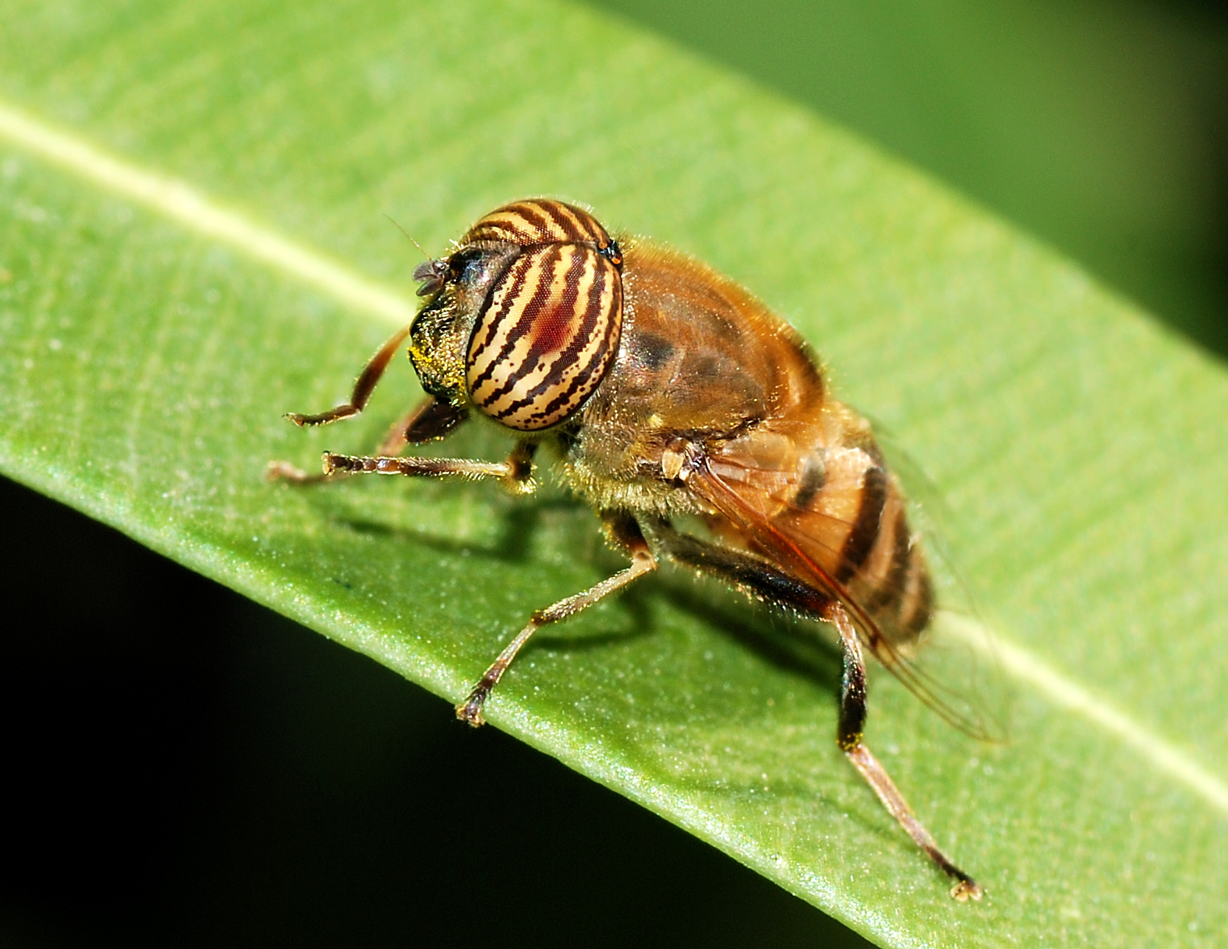 Compound eyes of Eristalinus taeniops